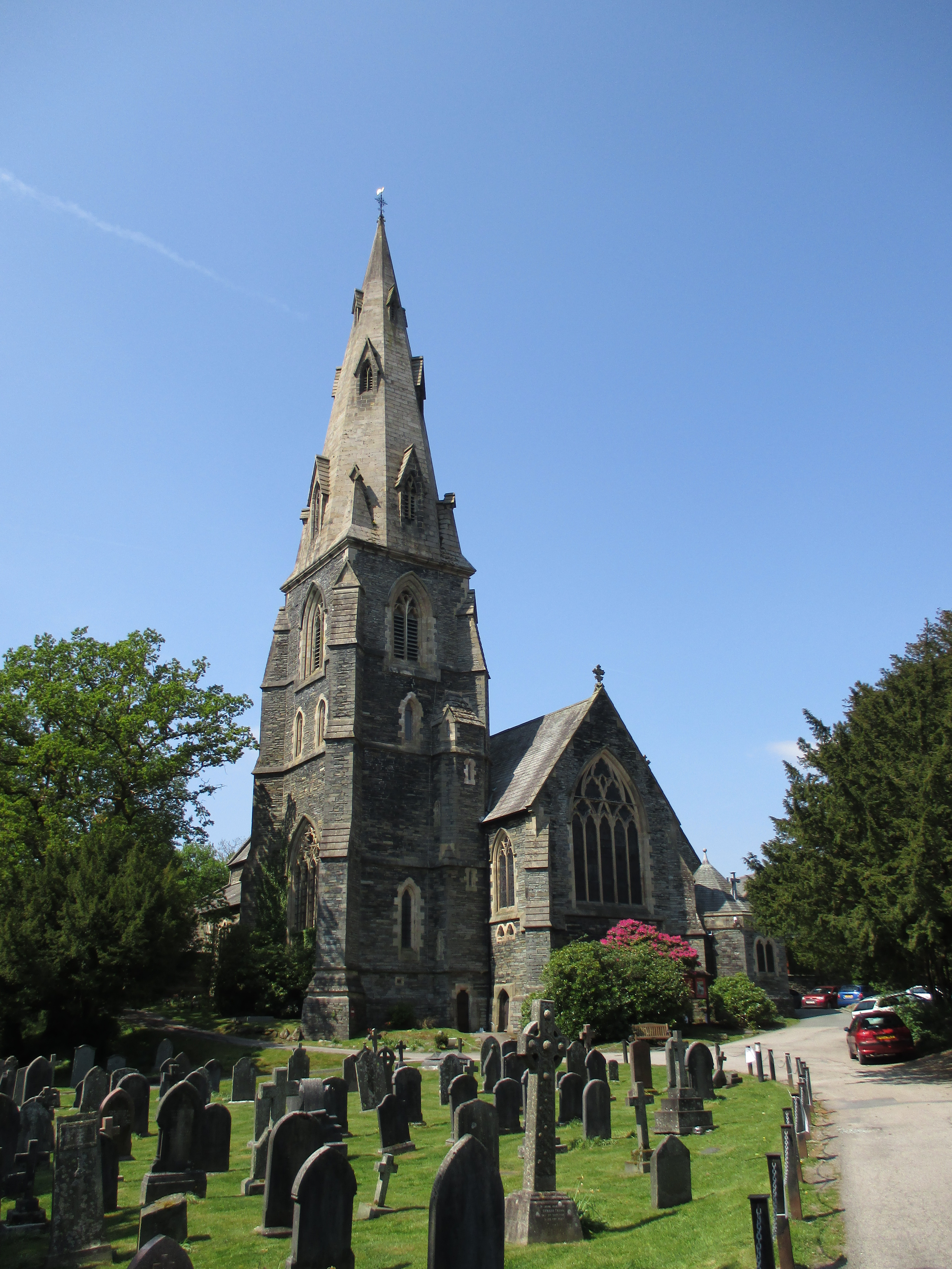 St. Mary's Church, Ambleside, Cumbria.